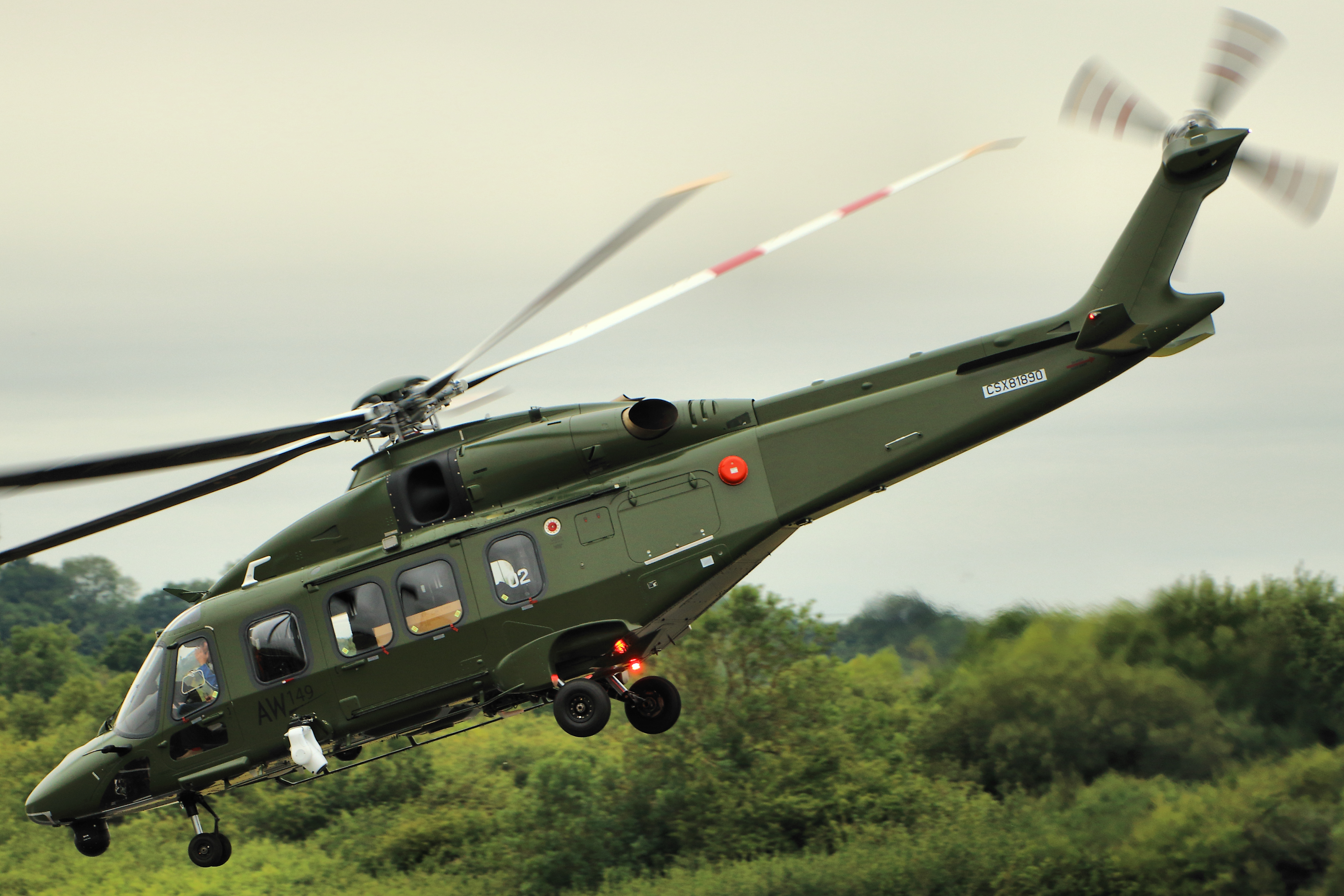 AW149 - RIAT 2015